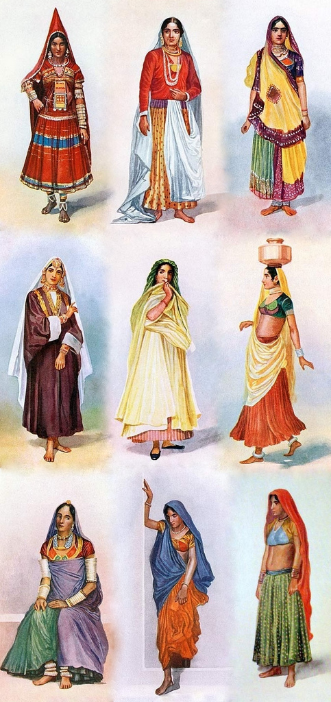 Watercolor Illustrations of different styles of Ghagra or Lengha Choli worn by women in South Asia.